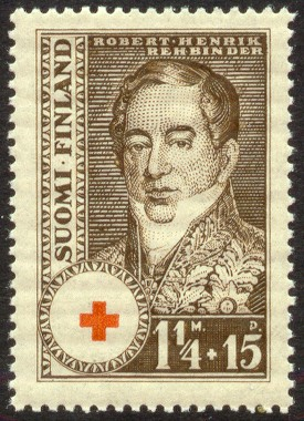 Postage stamp portraying the Finnish statesman and nobleman Robert Henrik Rehbinder